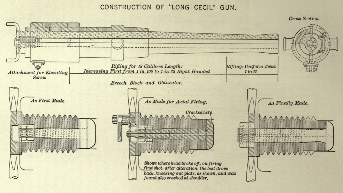 George Labram leaning on Long Cecil, as published in "Cassell's History of the Boer War, 1899-1902 by Richard Danes"